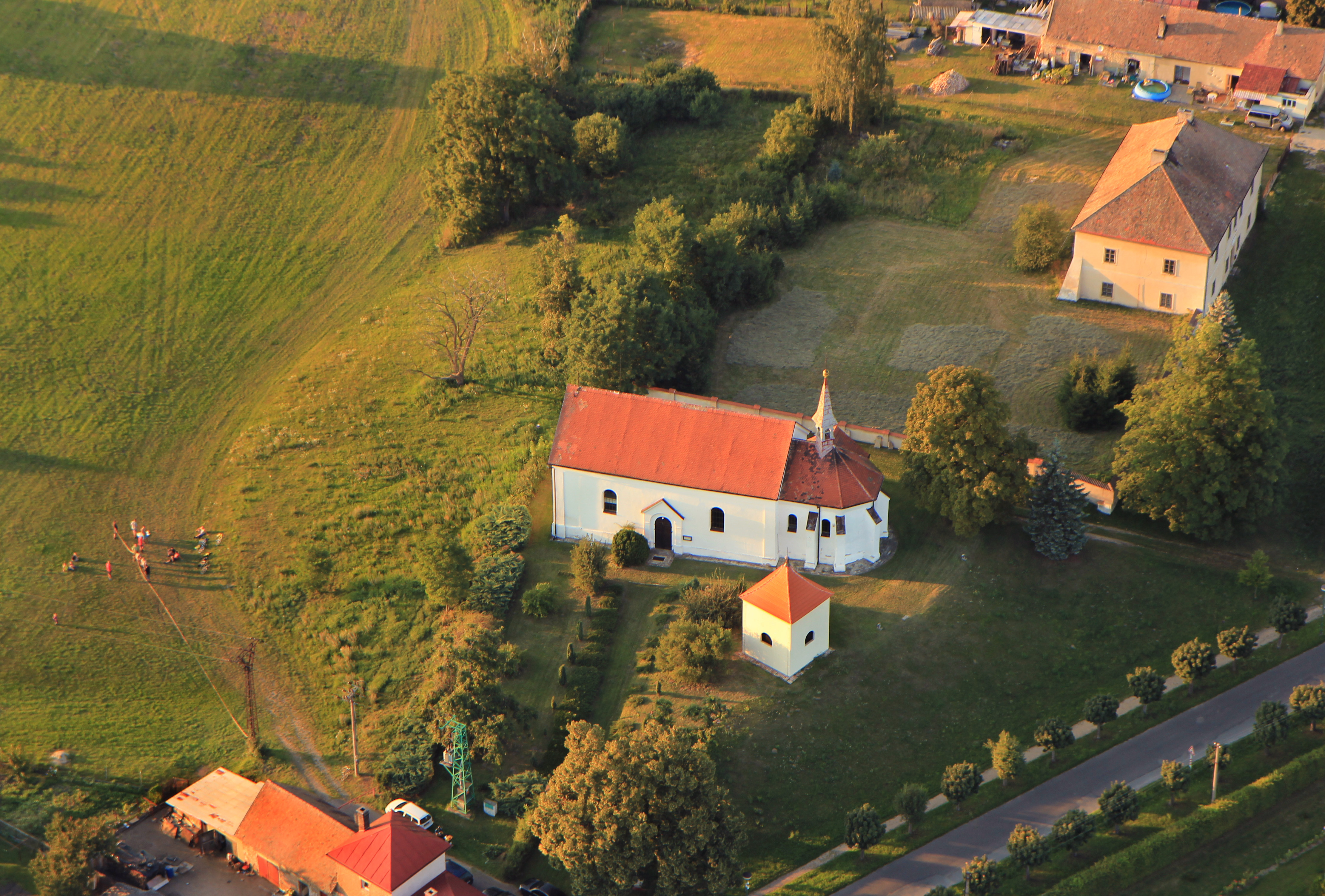 Aerial view of Všejany, Czech Republic